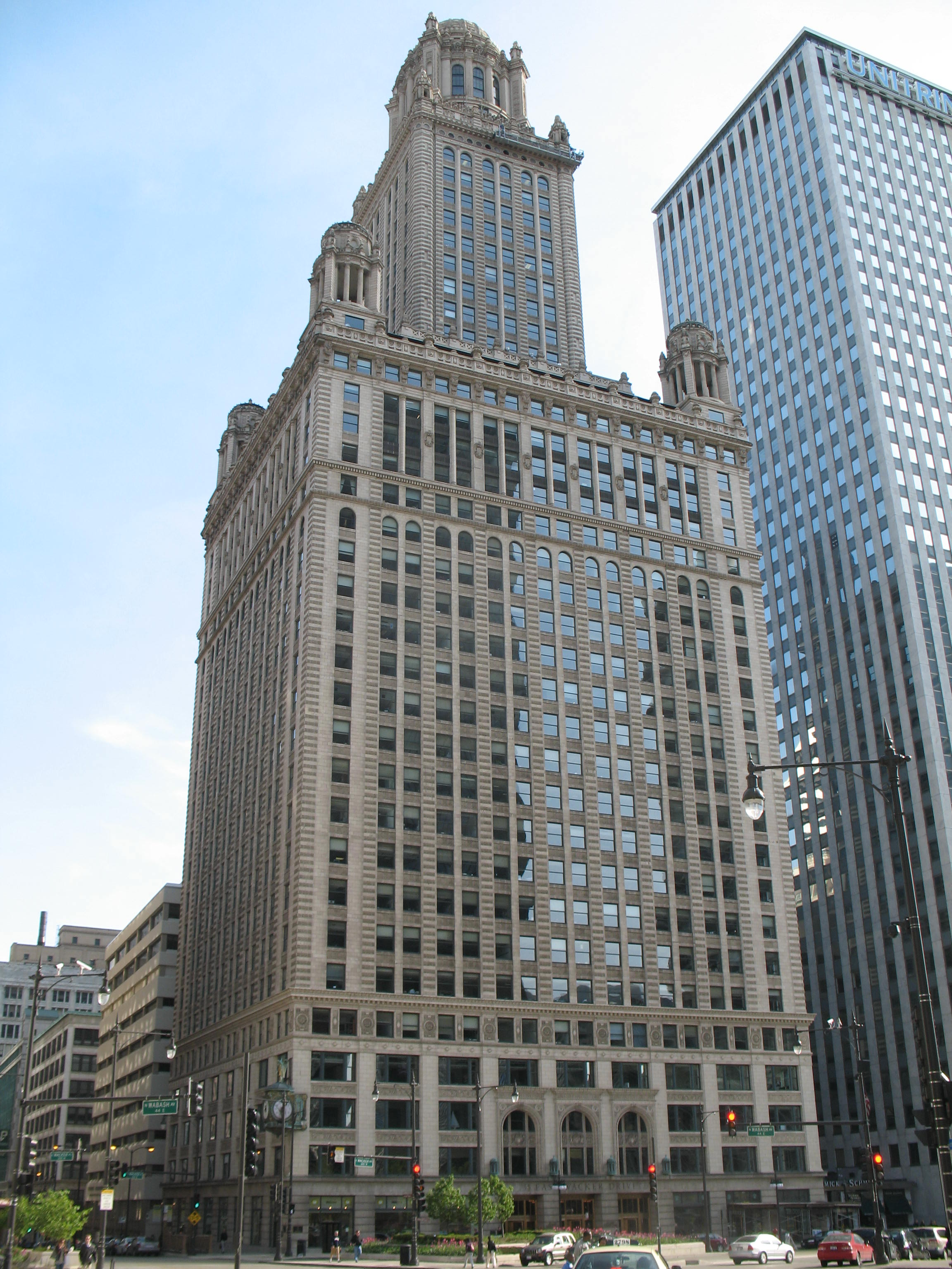 35 East Wacker